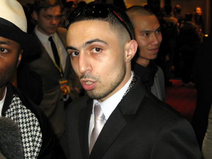 Picture of Adam Deacon taken by WhatTheWorldNeedsNow at the BAFTA awards 2012 red carpet